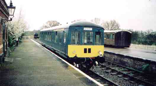 British Rail Class 100. Photograph by self.